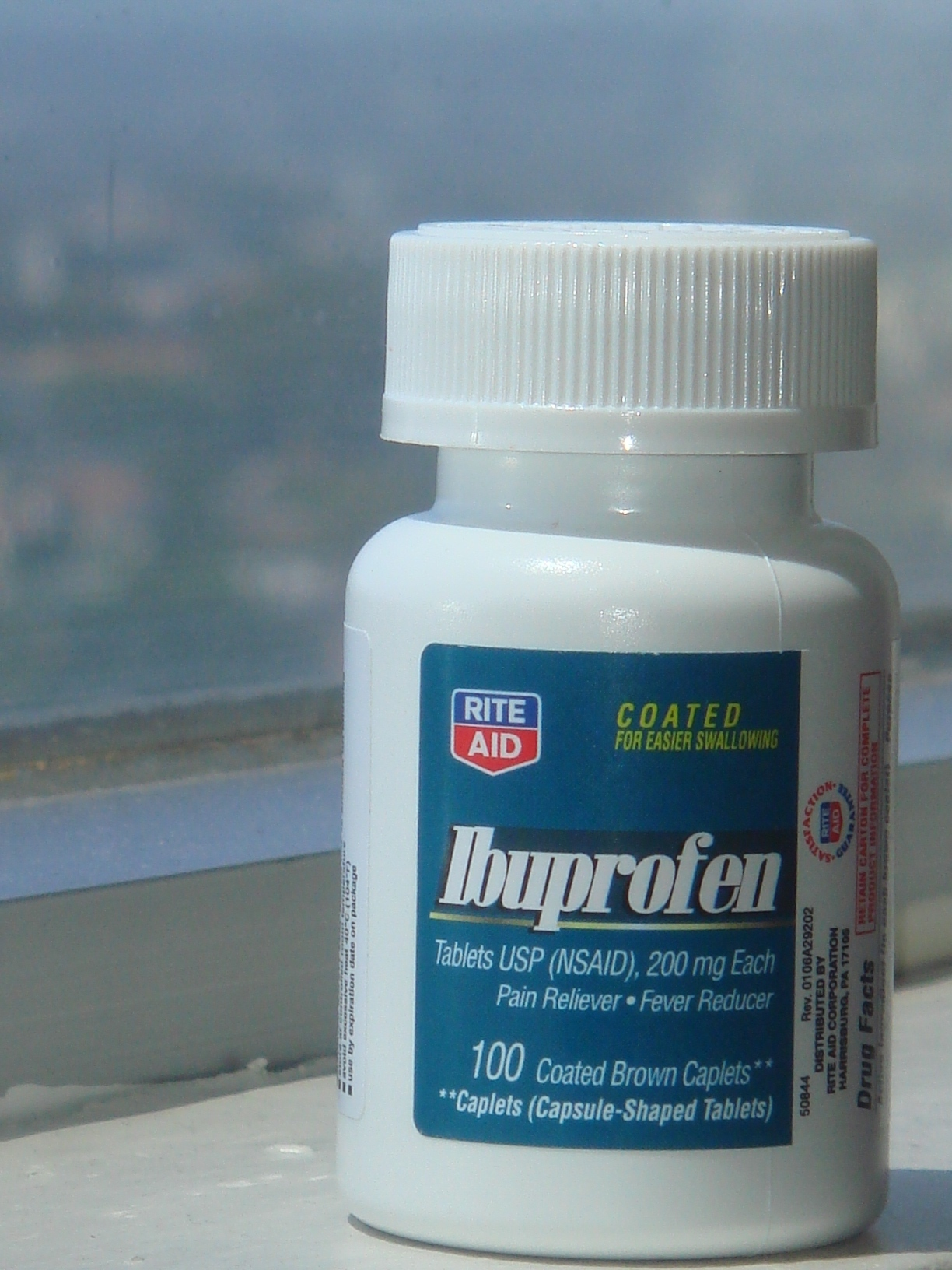 Example generic ibuprofen container.